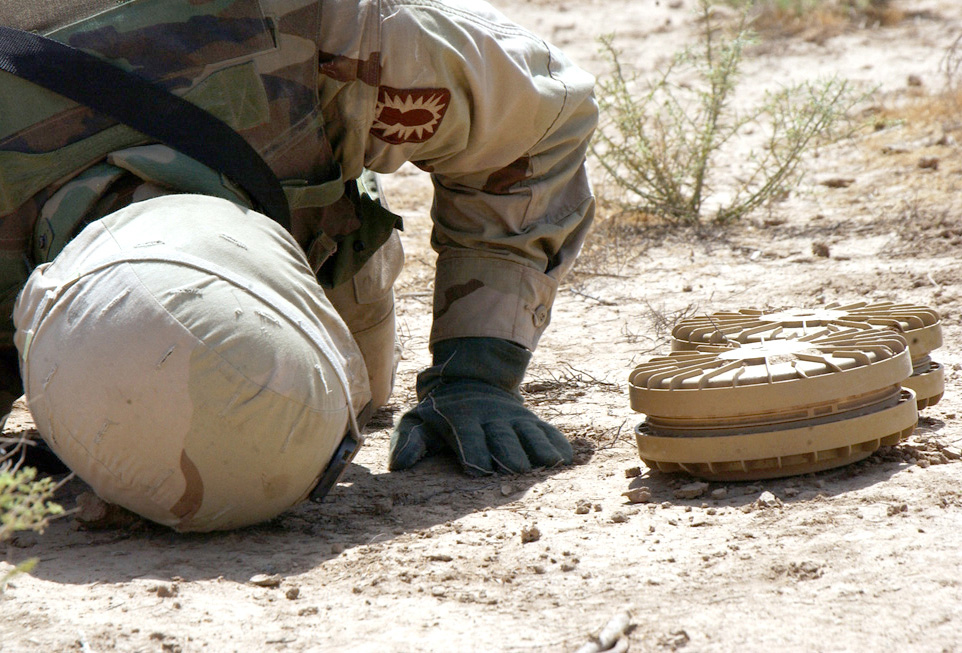 (From army.mil) "May 18, 2004. Staff Sgt. Kevin Jessen checks the underside of two Valsella 'VS-1.6' anti-tank mines found in a village outside Ad Dujayl, Iraq. Jessen is assigned to the 748th Explosive Ordnance Detachment, deployed from Fort Jackson, S.C., in support of Operation Iraqi Freedom. The 748th EOD is supporting the 1st Infantry Division. Note:- Staff Sergeant Jessen was killed in action March 5, 2006, aged 28. He was conducting a post-blast investigation near Rawah, Iraq when another improvised explosive device detonated and killed him. This photo appeared on A soldier checks two Italian made VS-1.6 anti-tank mines. The mines are upside down, although this would not affect their function.